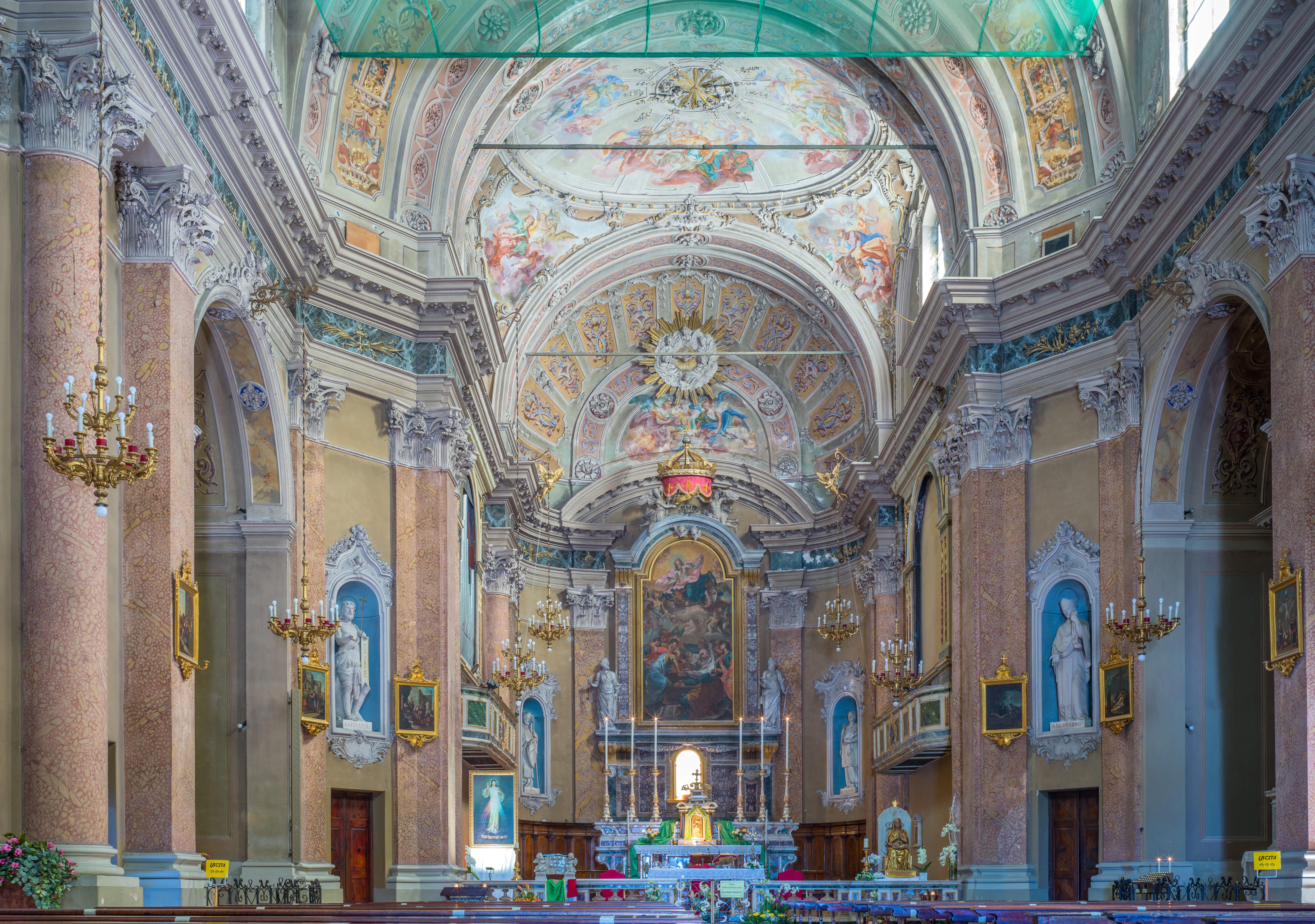 Internal view of the Santa Maria Assunta church in Solarolo , Manerba del Garda.